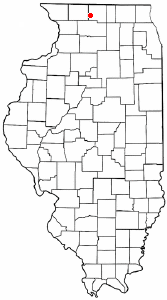 Category:Illinois city locator maps